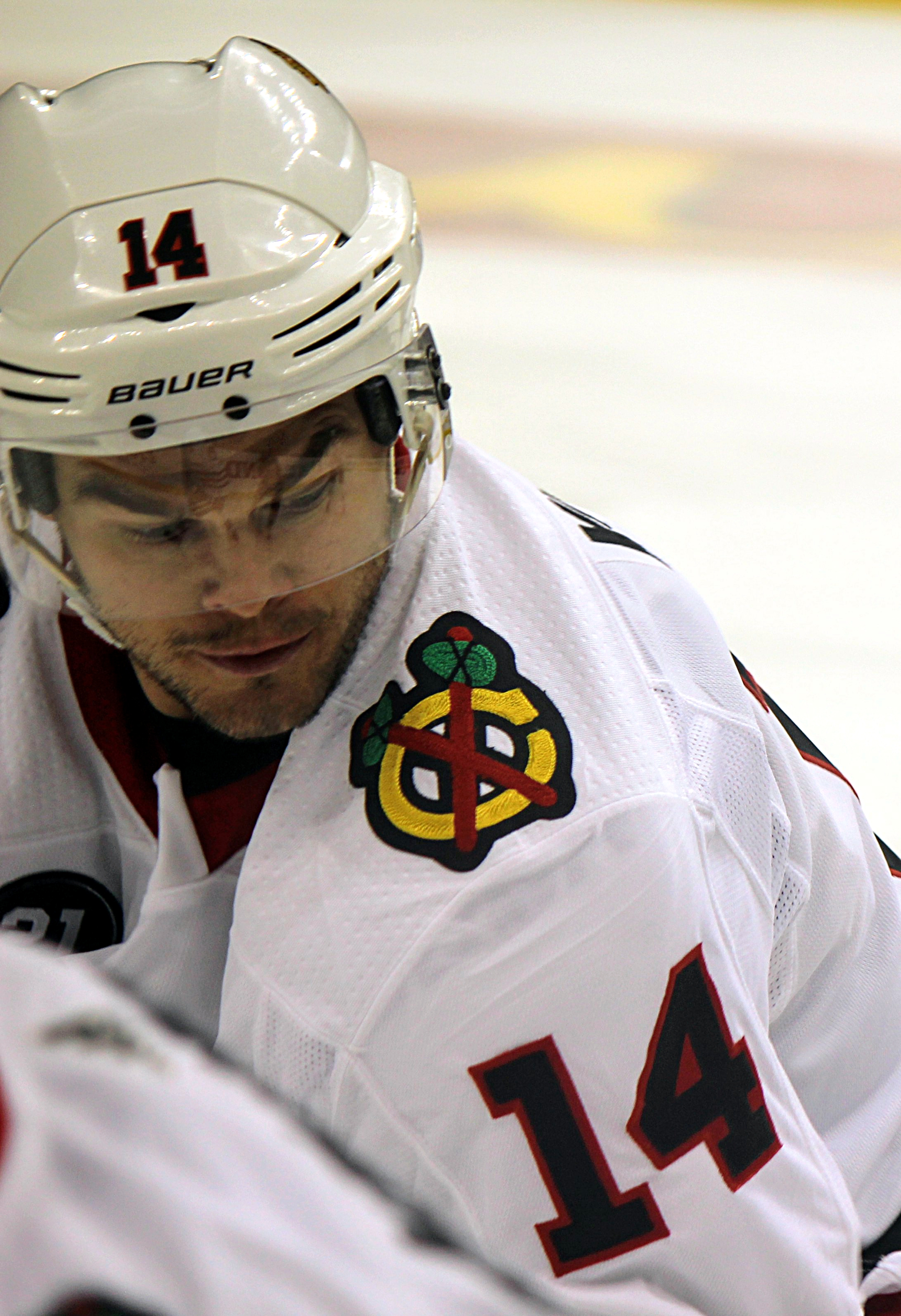 Chicago Blackhawks forward Chris Kunitz